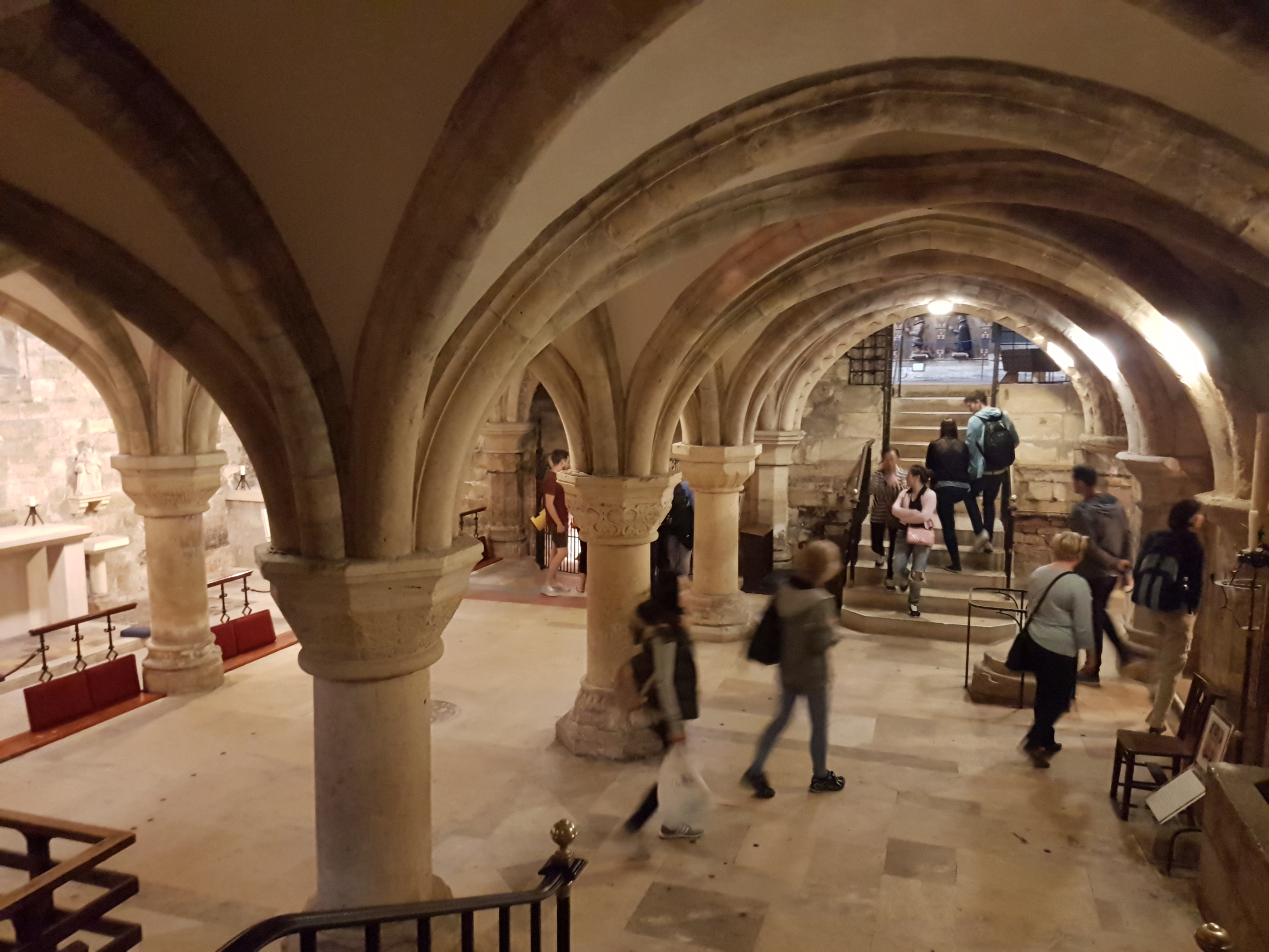 Crypt of York Minster, York, England